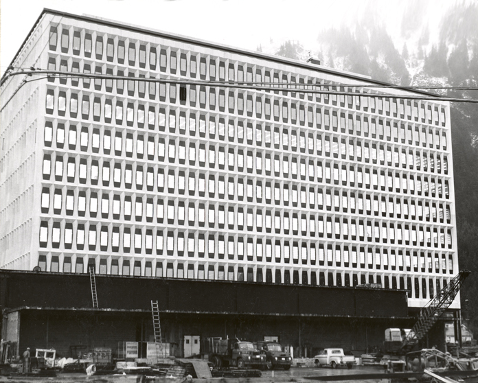 Juneau, Alaska U.S. Post Office and Courthouse (1965) Completed in 1966. Architects: Olson & Sands Still in use by the U.S. District Court for the District of Alaska.